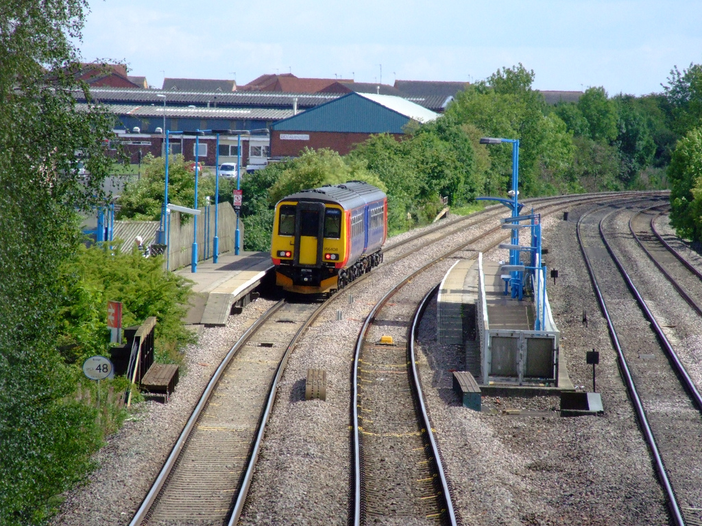 Sileby - 156408 sat at Sileby station